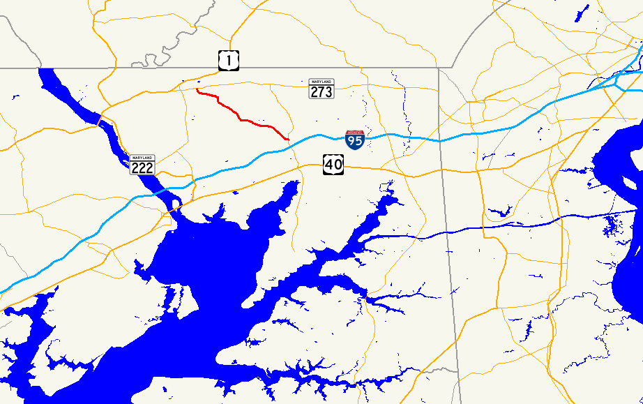 Map of Maryland Route 274